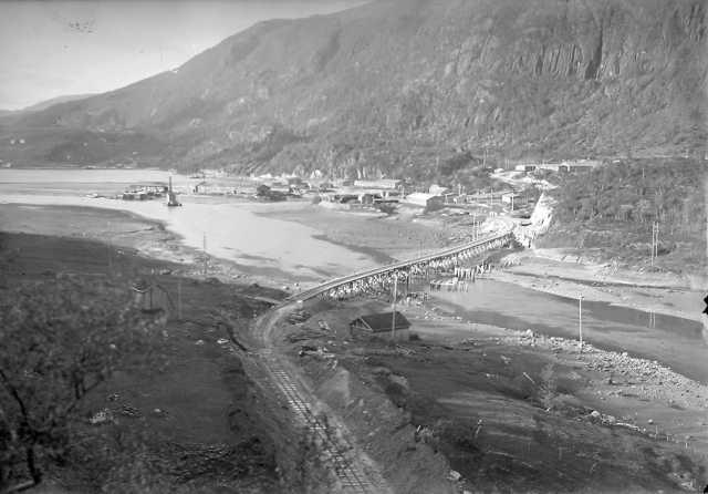 A prisoner of war camp at Elvkroken in Sørfold, while building the Polar Line